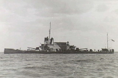 AWM caption : "1940-12-31. OFF BARDIA - H.M.S. "LADYBIRD". "